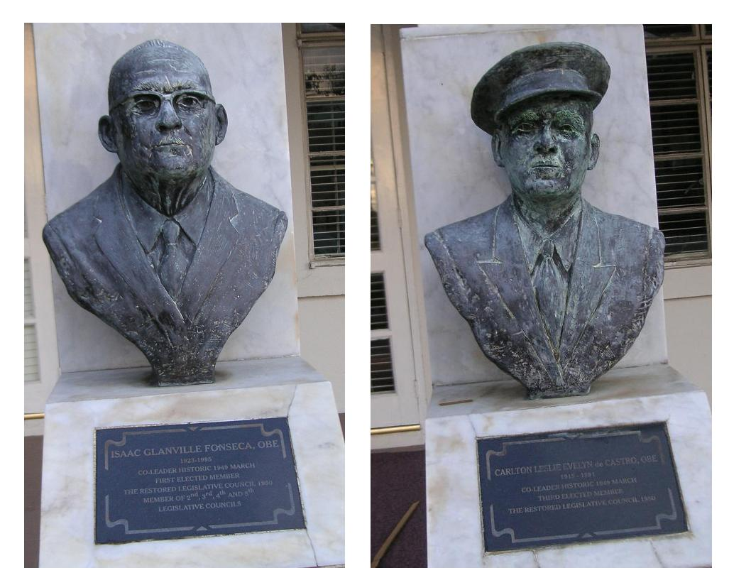 Photograph of the busts of Carlton de Castro and Isaac Fonseca outside of the Legislative Council building in Road Town, Tortola, British Virgin Islands